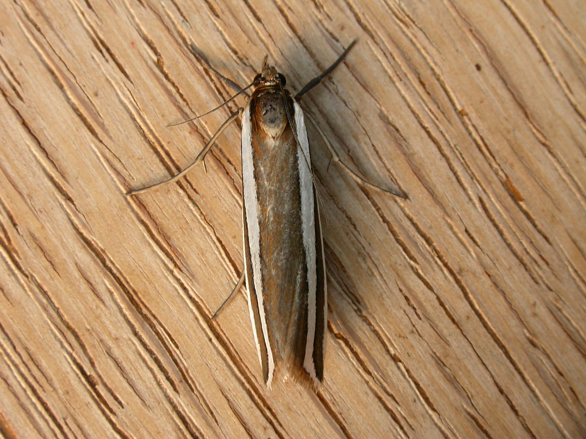 Corynophora lativittalis (Walker, 1863), to MV light, Blackheath, NSW, 25/26 January 2011